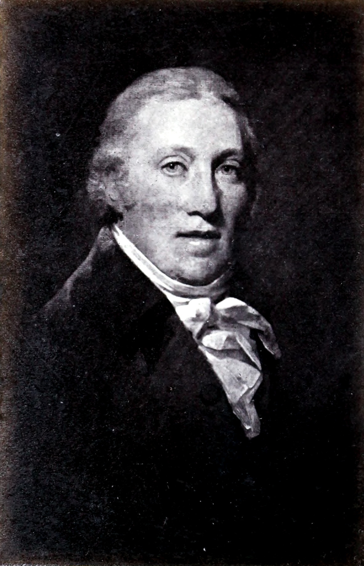 230 John Dunlop. Died about 1820. Son of Provost Colin Dunlop of Carmyle (No. 4). A merchant in Glasgow, and afterwards collector of Customs at Bo'ness and Greenock. A Bailie from 1786 till 1788, and Lord Provost of Glas- gow in 1794 and '95. He was the author of the beautiful songs "Here's to the year that's awa," and " O dinna ask me gin I lo'e ye," and other poems. He was father of John Colin Dunlop, late Sheriff of Renfrewshire, author of "The History of Fiction," and other works. Taintek, Sir Henry Raeburn, R.A.